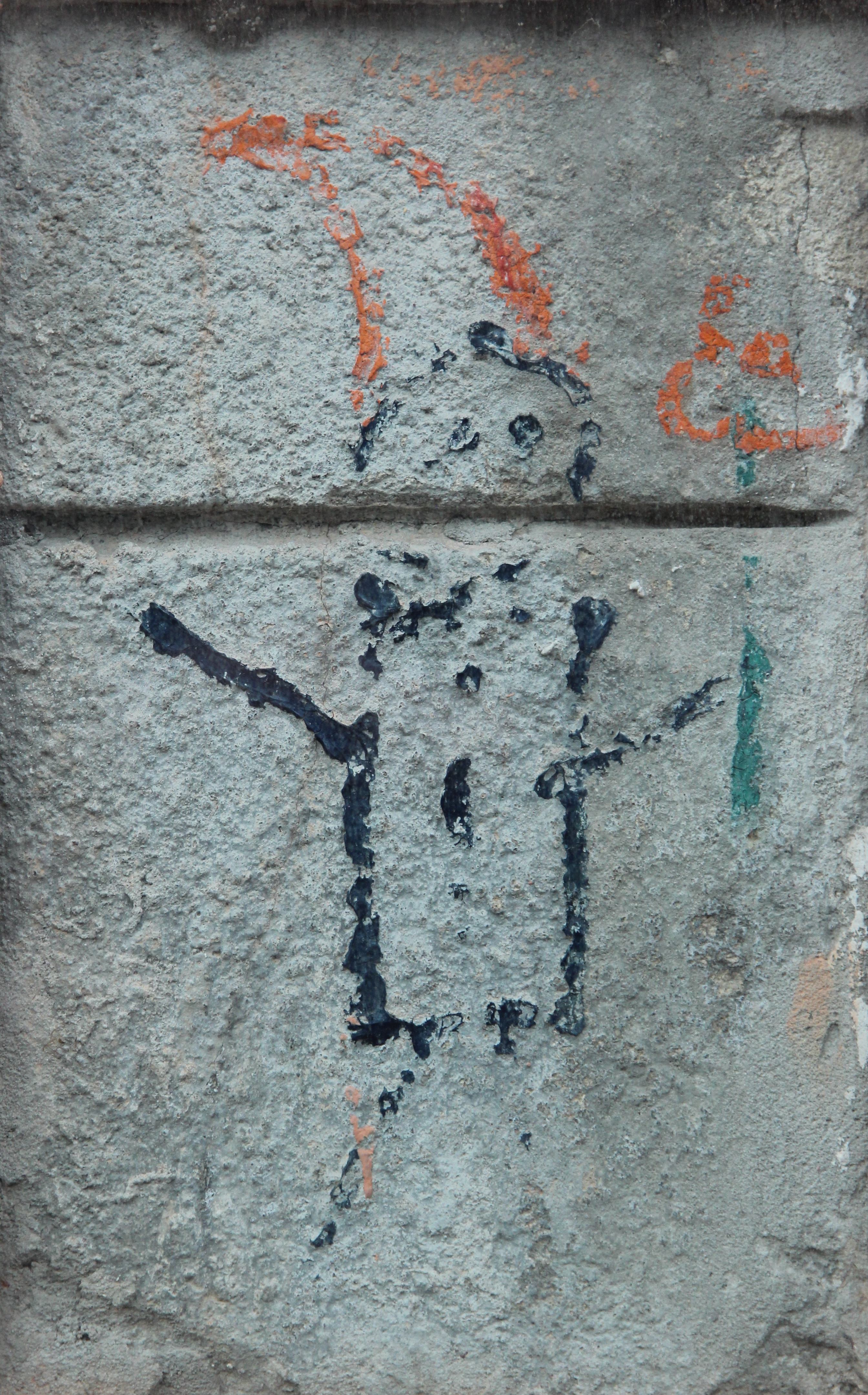 Orange Alternative (Pomarańczowa Alternatywa) Dwarf graffiti on a building wall in Wrocław, Poland